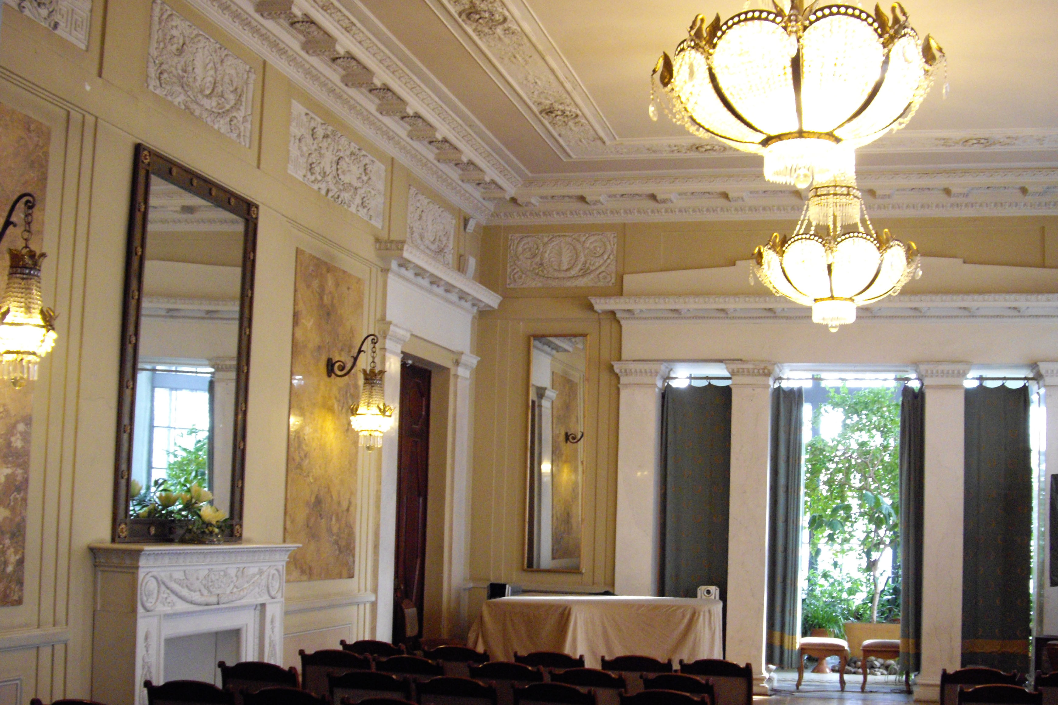 Interior of a grand hall in the mansion of Mathilde Kschessinska